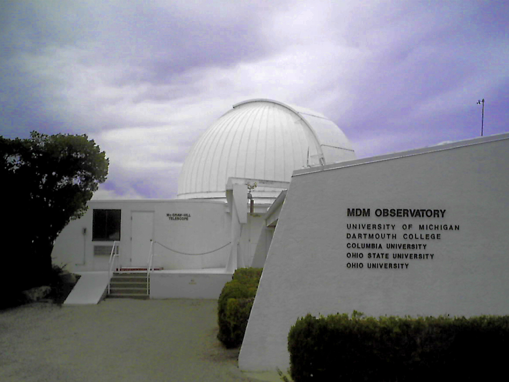 Borka Plumpster, Photo taken at MDM McGraw-Hill Telescope